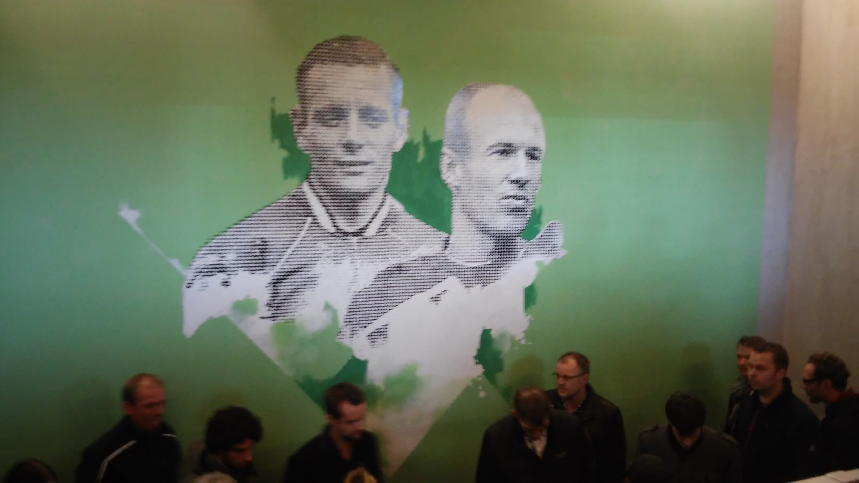 Muurschilderingen in de Euroborg. Piet Fransen en Arjen Robben.